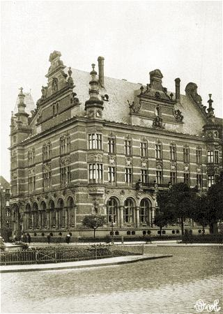 Bank of Danzig. Now Gdańsk (Poland), built in 1906.